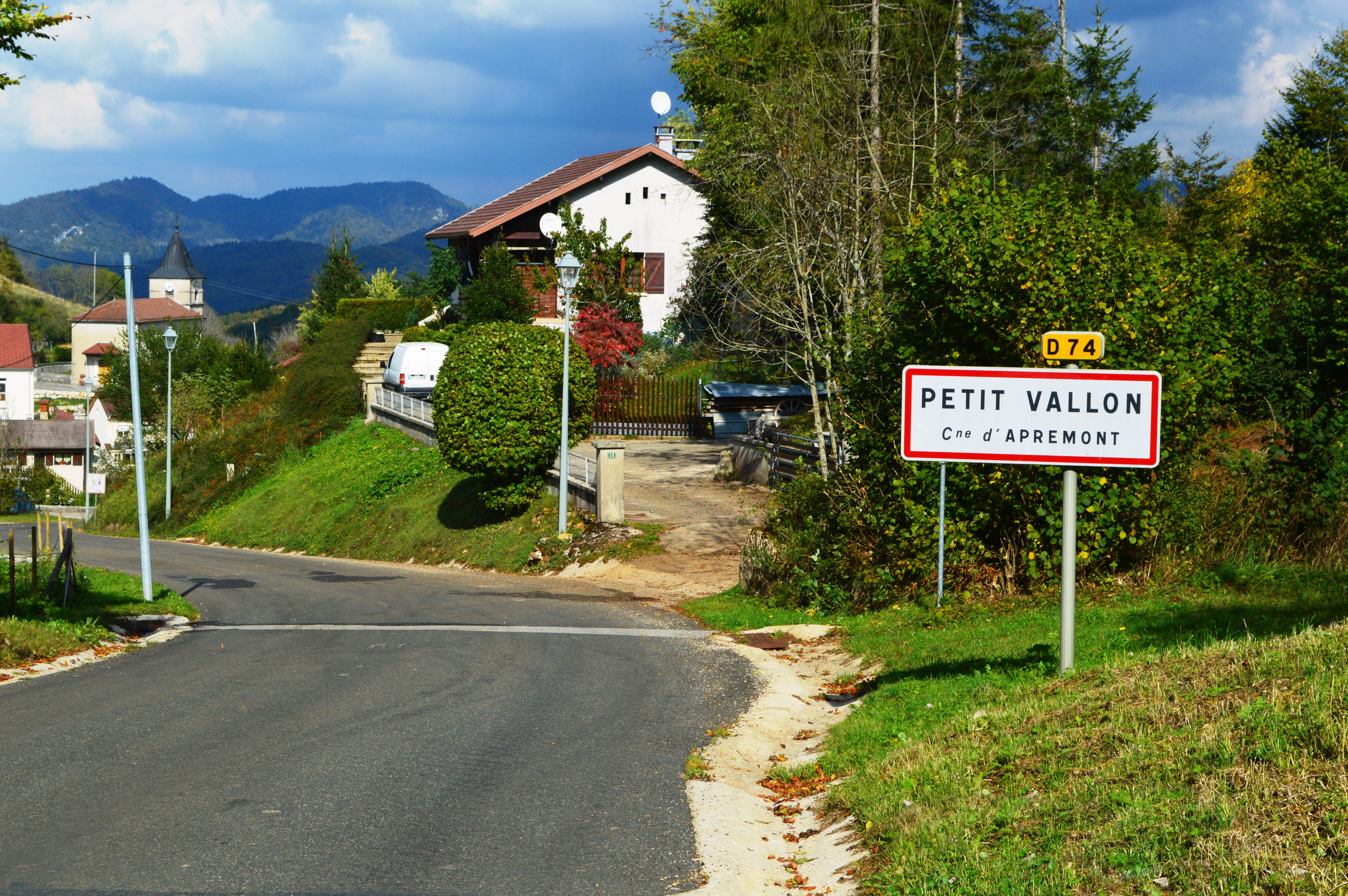 The entry to Petit Vallon